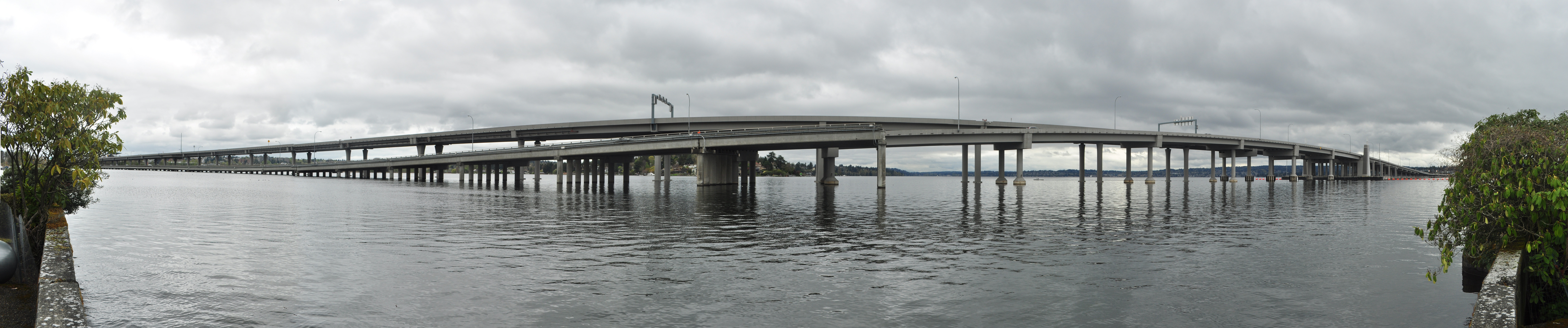 Roughly 180° panoramic view of Evergreen Point Floating Bridge (Washington State Route 520) seen from Edgewater Apartments, Madison Park, Seattle, Washington, U.S. This image was created with Hugin.